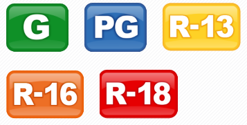 Philippines motion picture content rating system